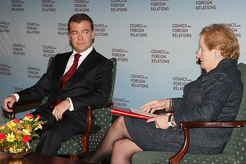 WASHINGTON. At a meeting with members of the Council on Foreign Relations. With ex-US Secretary of State Madeleine Albright.